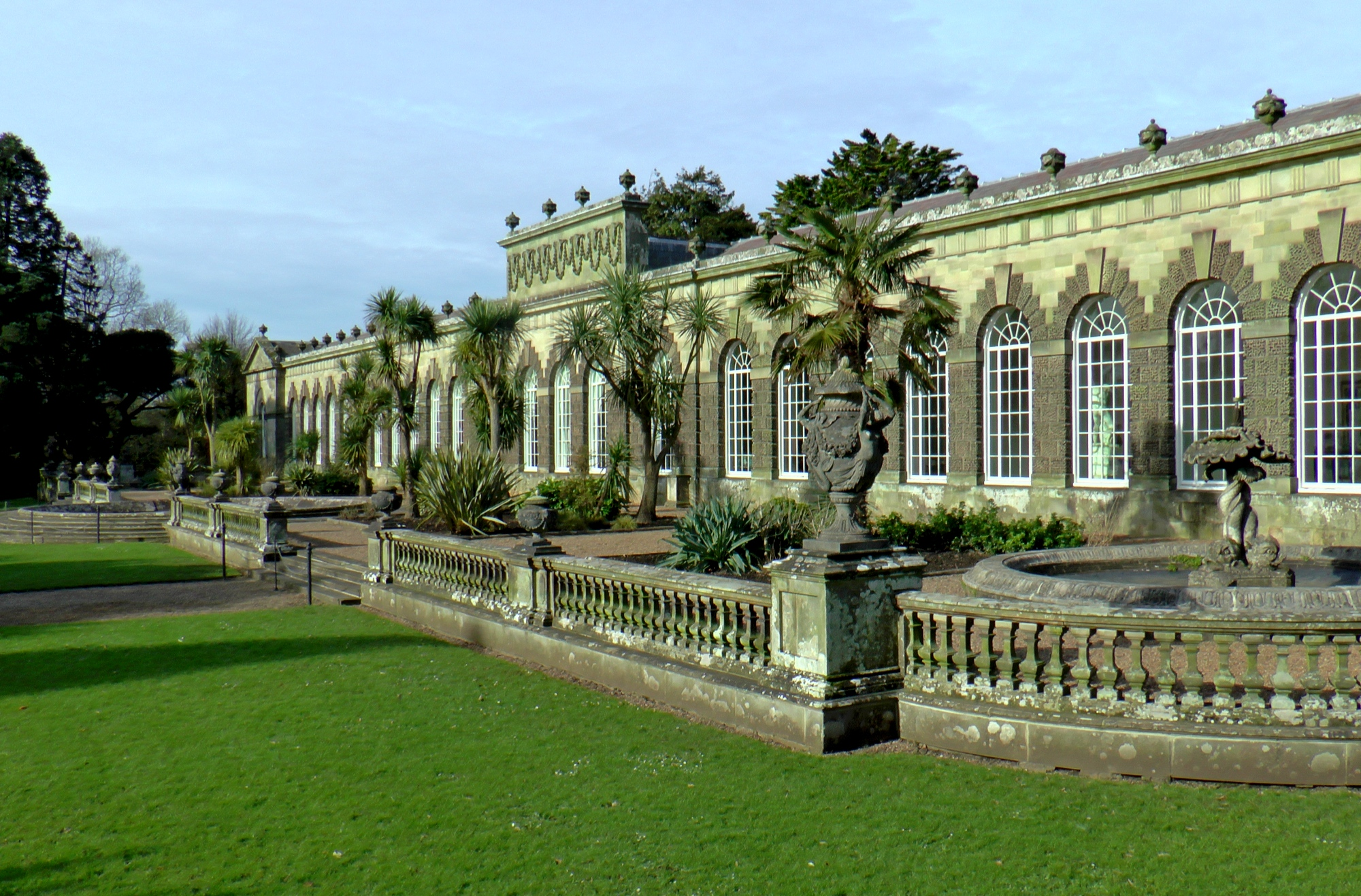 Terrace with Pools and Flower Beds fronting Margam Orangery